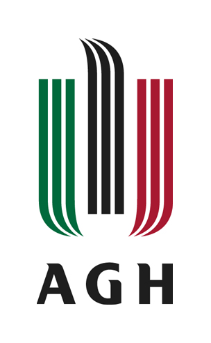 AGH University of Science and Technology graphic symbol